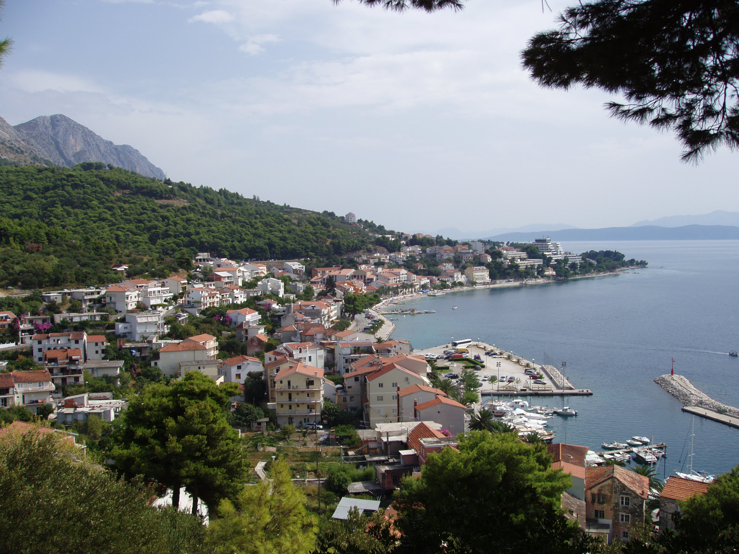 Podgora, Croatia